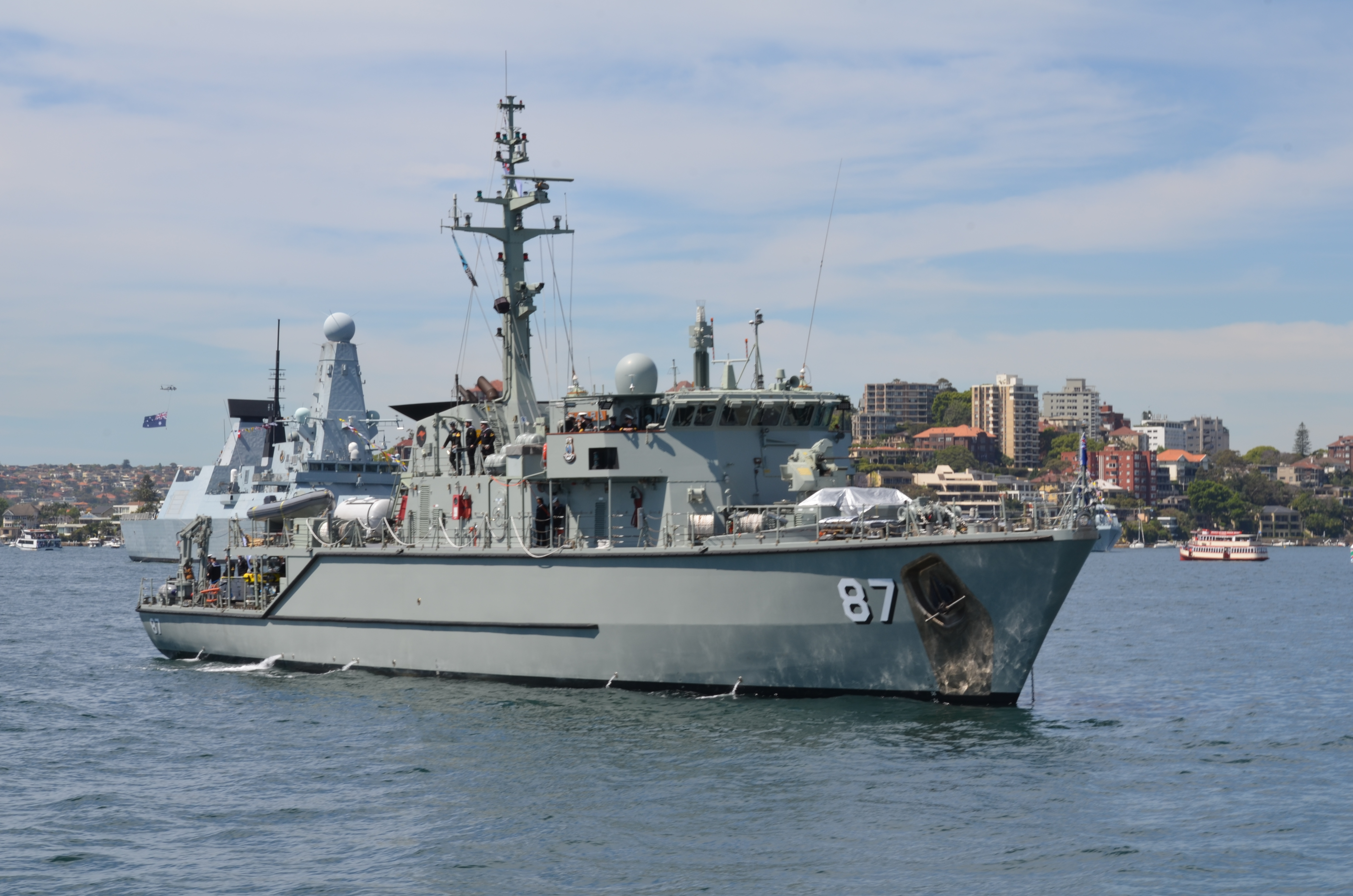 Photographs taken during day 3 of the Royal Australian Navy International Fleet Review 2013. Australian minehunter Yarra moored on Sydney Harbour.